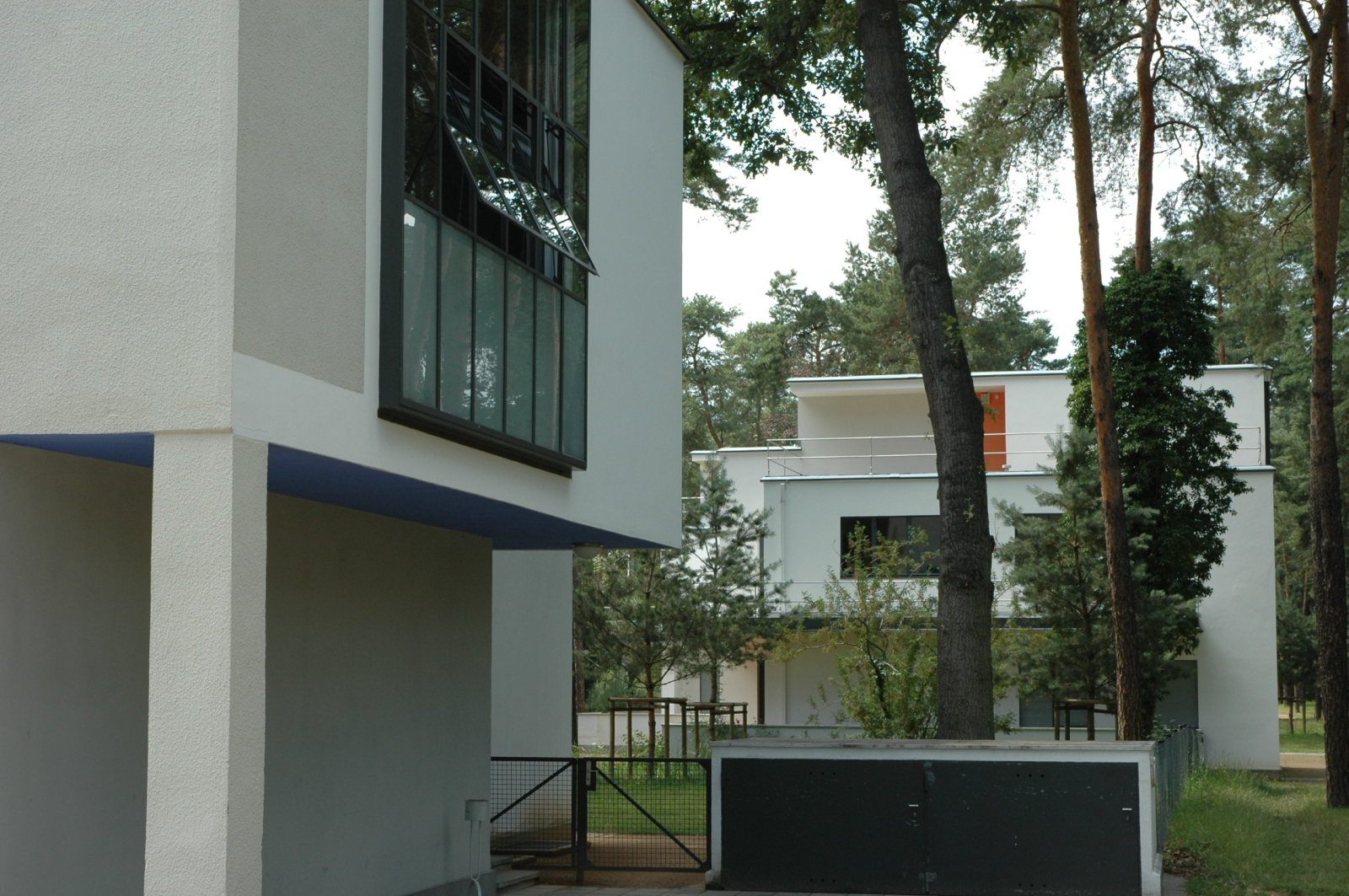 Bauhaus teachers' houses, in Dessau.